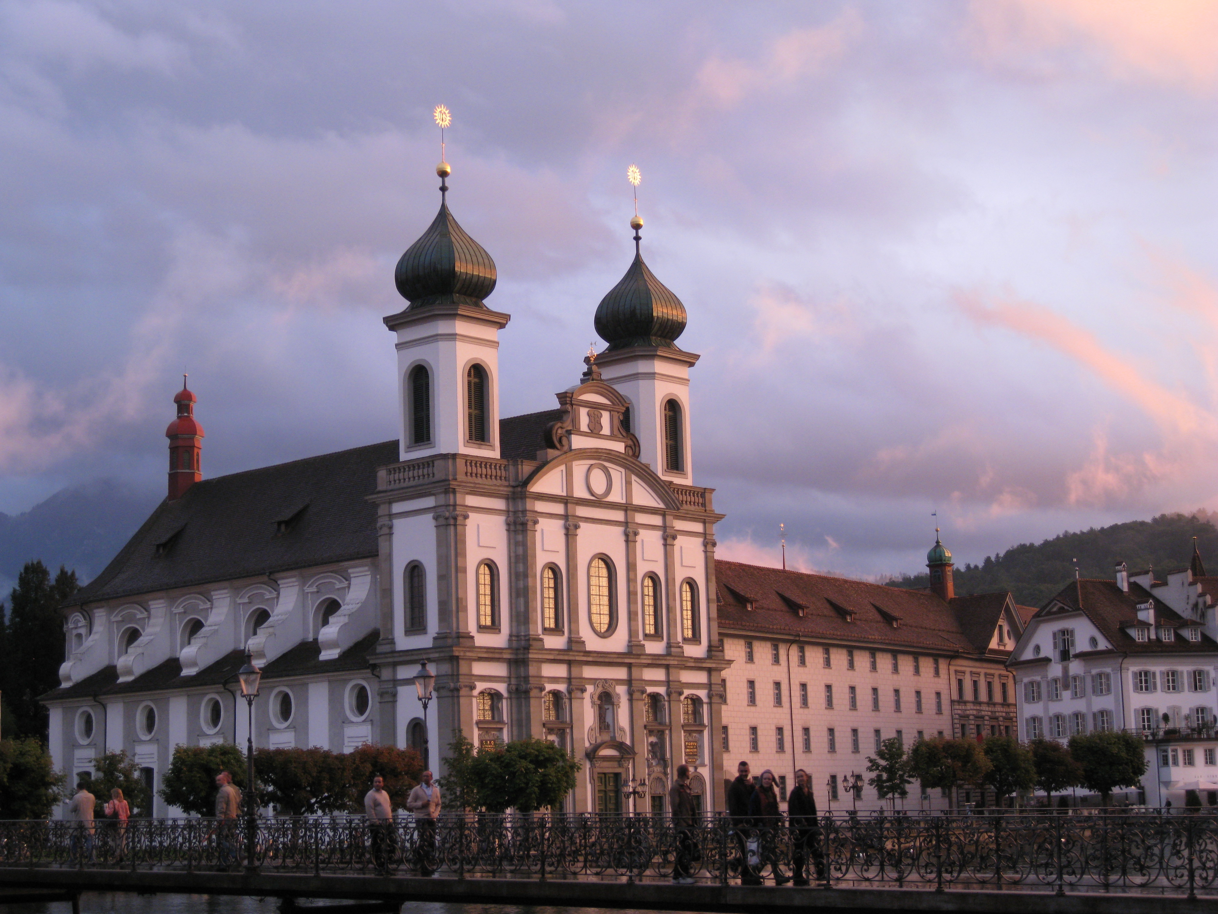 Lucerne's Jesuit Church at Sunset